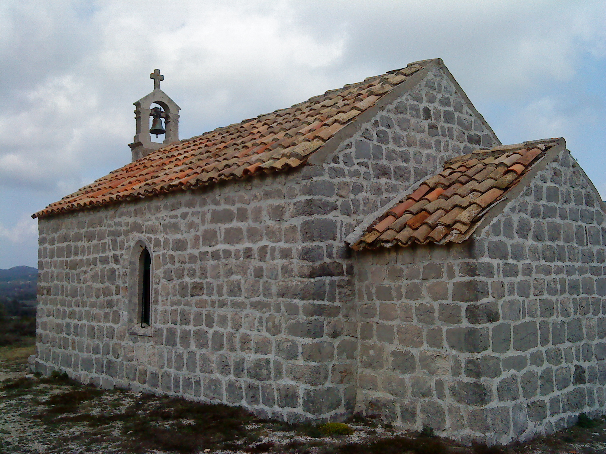 St. Anna church at Putnikovići cemetery